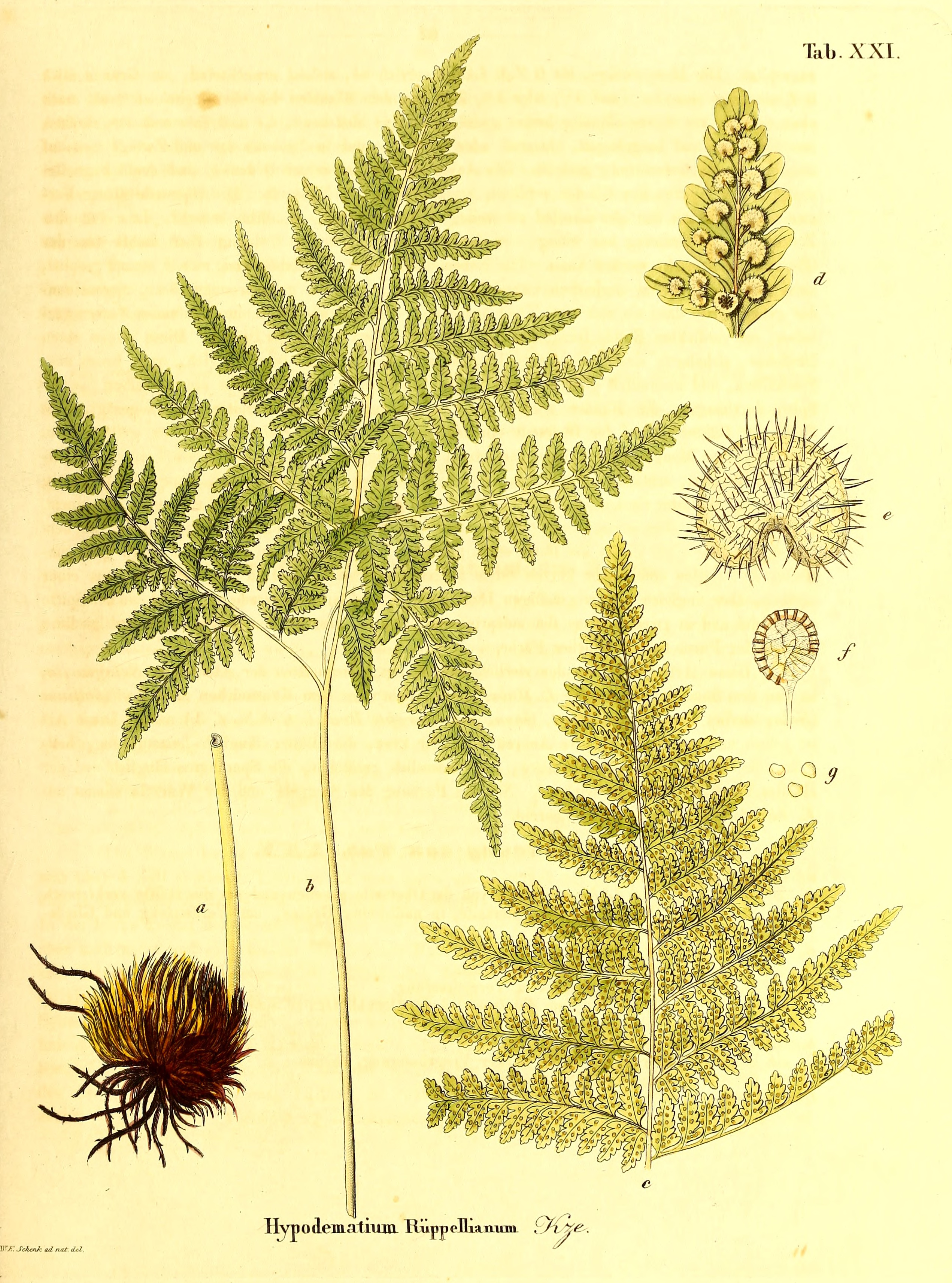 Title: Die Farrnkräuter in kolorirten Abbildungen naturgetreu Erläutert und Beschrieben Year: 1840 (1840s) Authors: Kunze, Gustav, 1793-1851 Subjects: Ferns Publisher: Leipzig, E. Fleischer Text Appearing Before Image: ' Text Appearing After Image: '